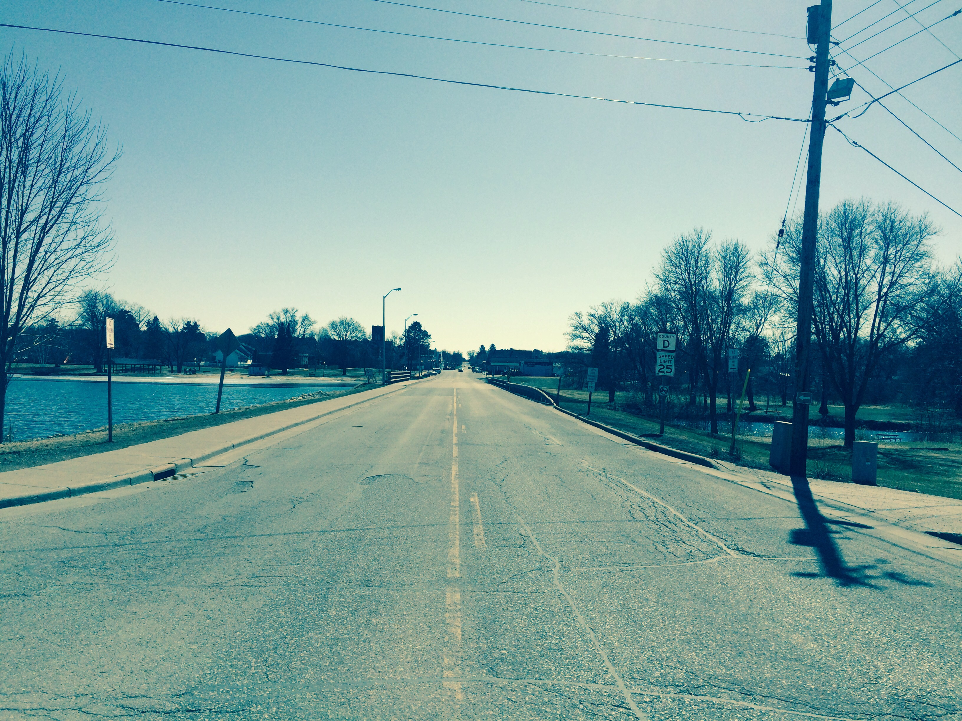 Mainstreet looking south.